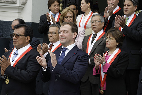 LIMA, PERU. With President of the National Congress of Peru Javier Velasquez Quesquen.